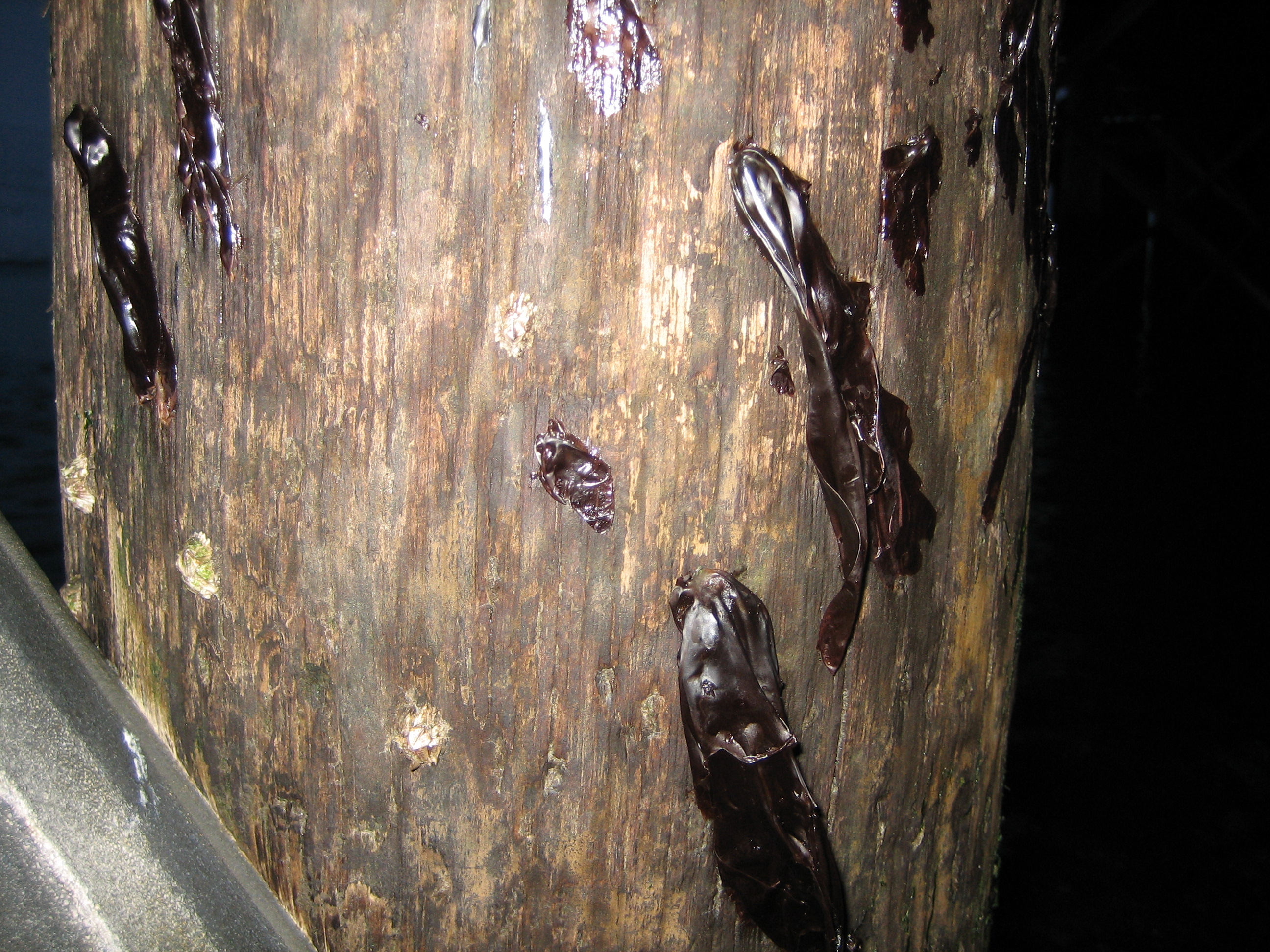 Biofouling on a wooden pole